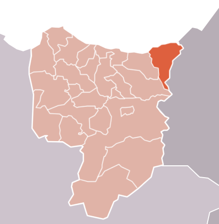 Amejjaou